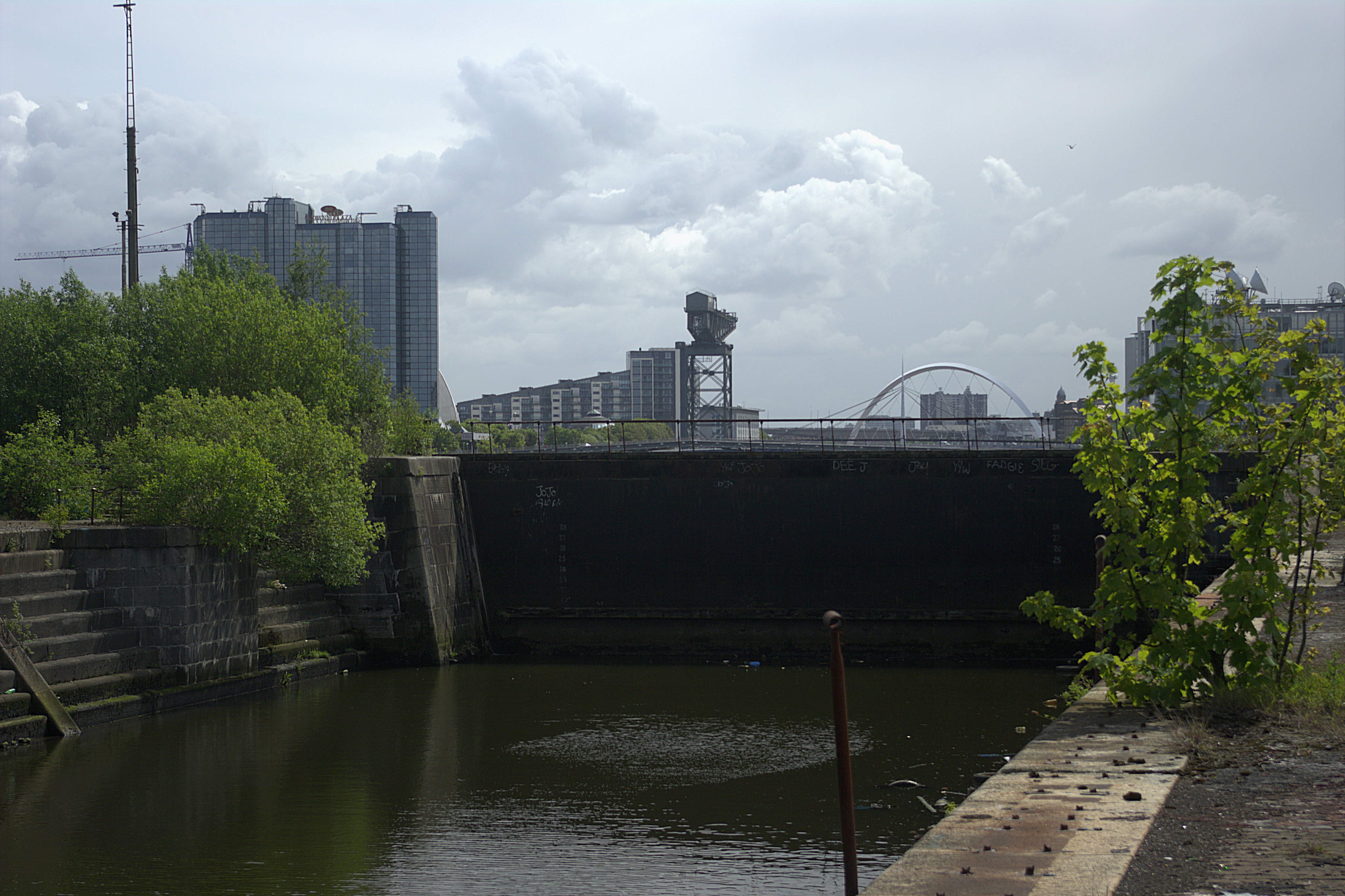 18 Clydebrae Street, Govan Graving Docks Wikidata has entry Q17568720 with data related to this item.